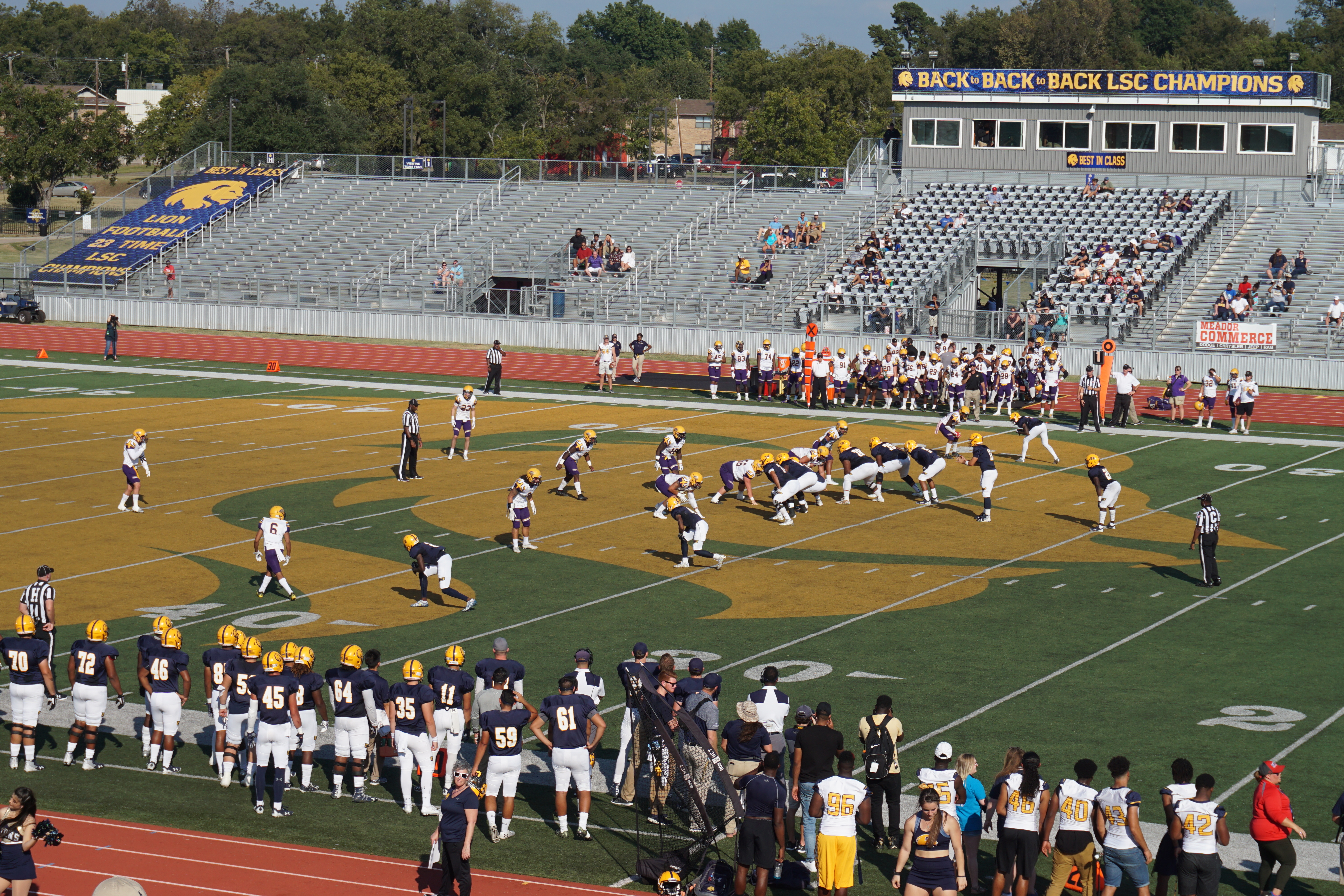 A&M–Commerce on offense during the Western New Mexico Mustangs vs. Texas A&M–Commerce Lions football game at Memorial Stadium in Commerce, Texas (United States). A&M–Commerce won 52–3.